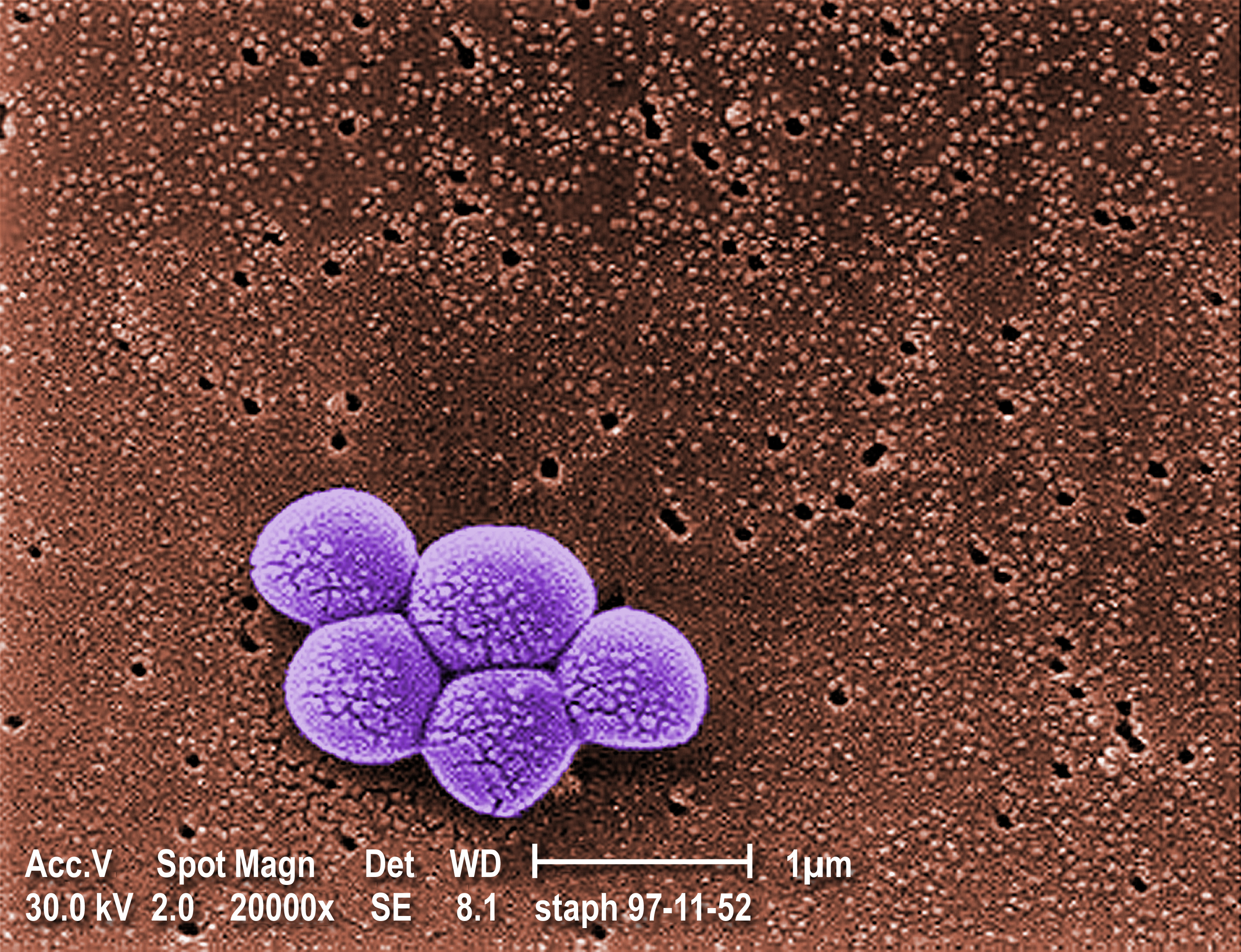 Magnified 20,000X, this colorized scanning electron micrograph (SEM) depicts a grouping of methicillin resistant Staphylococcus aureus (MRSA) bacteria. See PHIL 617 for a black and white view of this image. These S. aureus bacteria are methicillin-resistant, and are from one of the first isolates in the U.S. that showed increased resistance to vancomycin as well. Note the increase in cell wall material seen as clumps on the organisms’ surface.